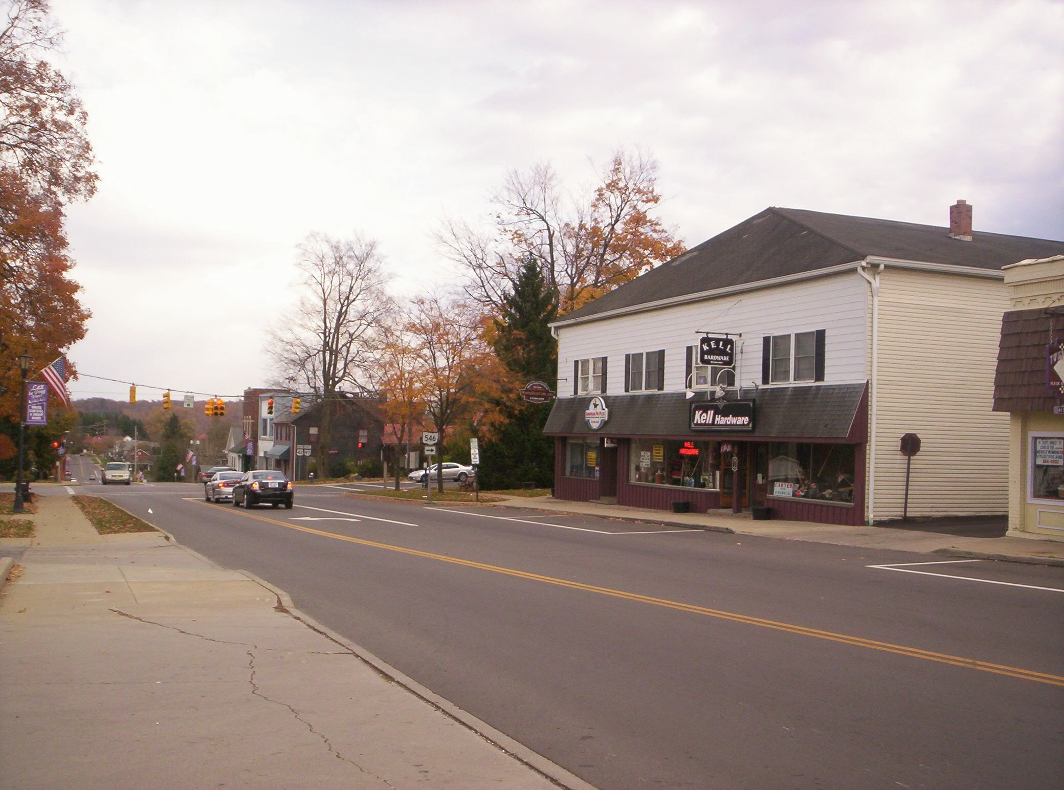 A view of downtown Lexington, Ohio on West Main Street.